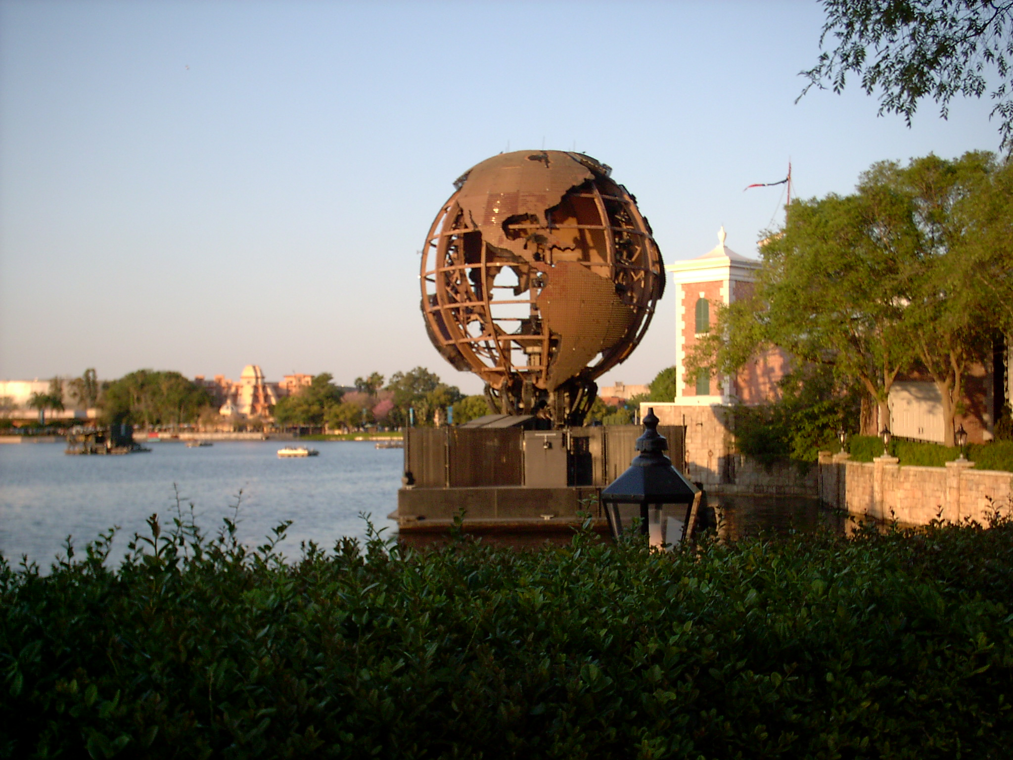 A photo of the Globe Barge from IllumiNations: Reflections of Earth at dusk. During the show, the barge moves from its position next to the American Adventures (As in the picture) to the center of the World Showcase lagoon. Photo by TheOneVader.